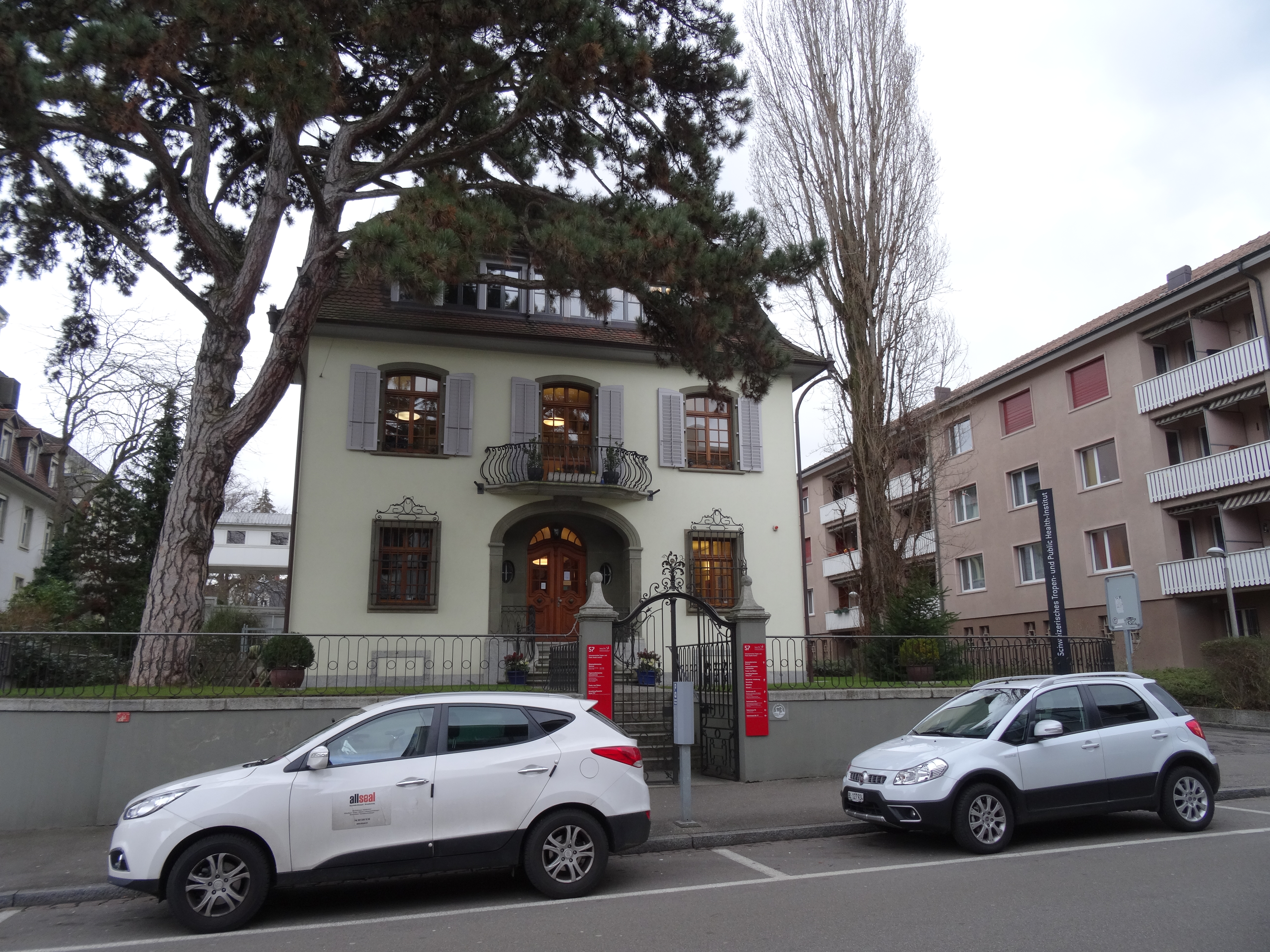 The Swiss Tropical and Public Health Institute at the Socinstrasse 57 in Basel/Switzerland. The picture shows the entrance to the medical section of the institute.